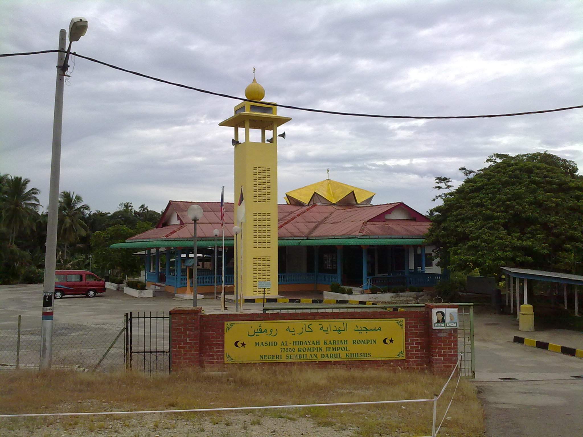 Masjid Pekan Rompin